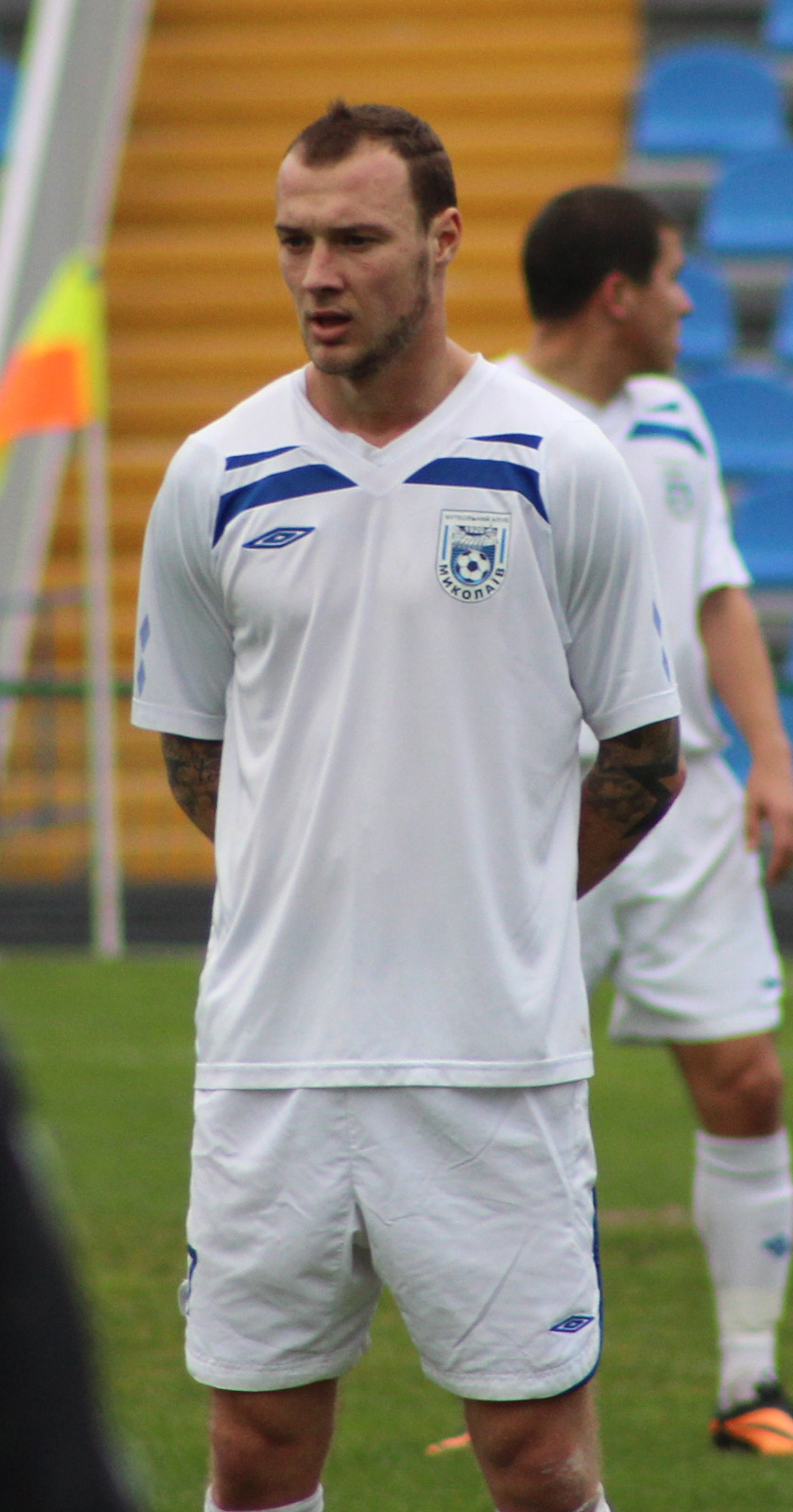 Alexandr Kablash